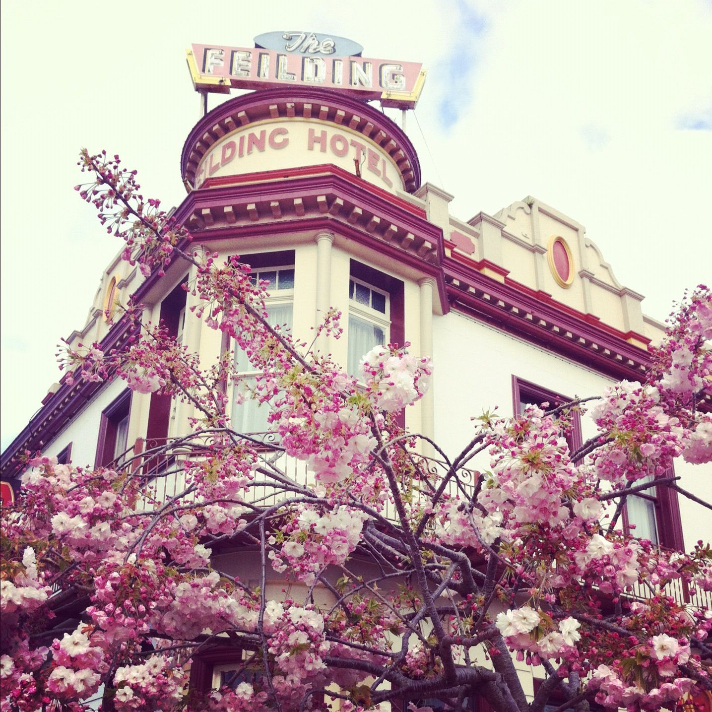 Feilding Hotel on the corner of Manchester Square and Kimbolton Road was the first licensed hotel established in the town in 1875.